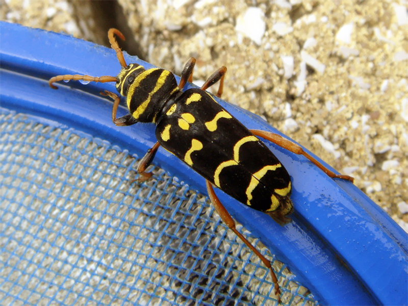 Plagionotus arcuatus in Avelar, Leiria, Portugal